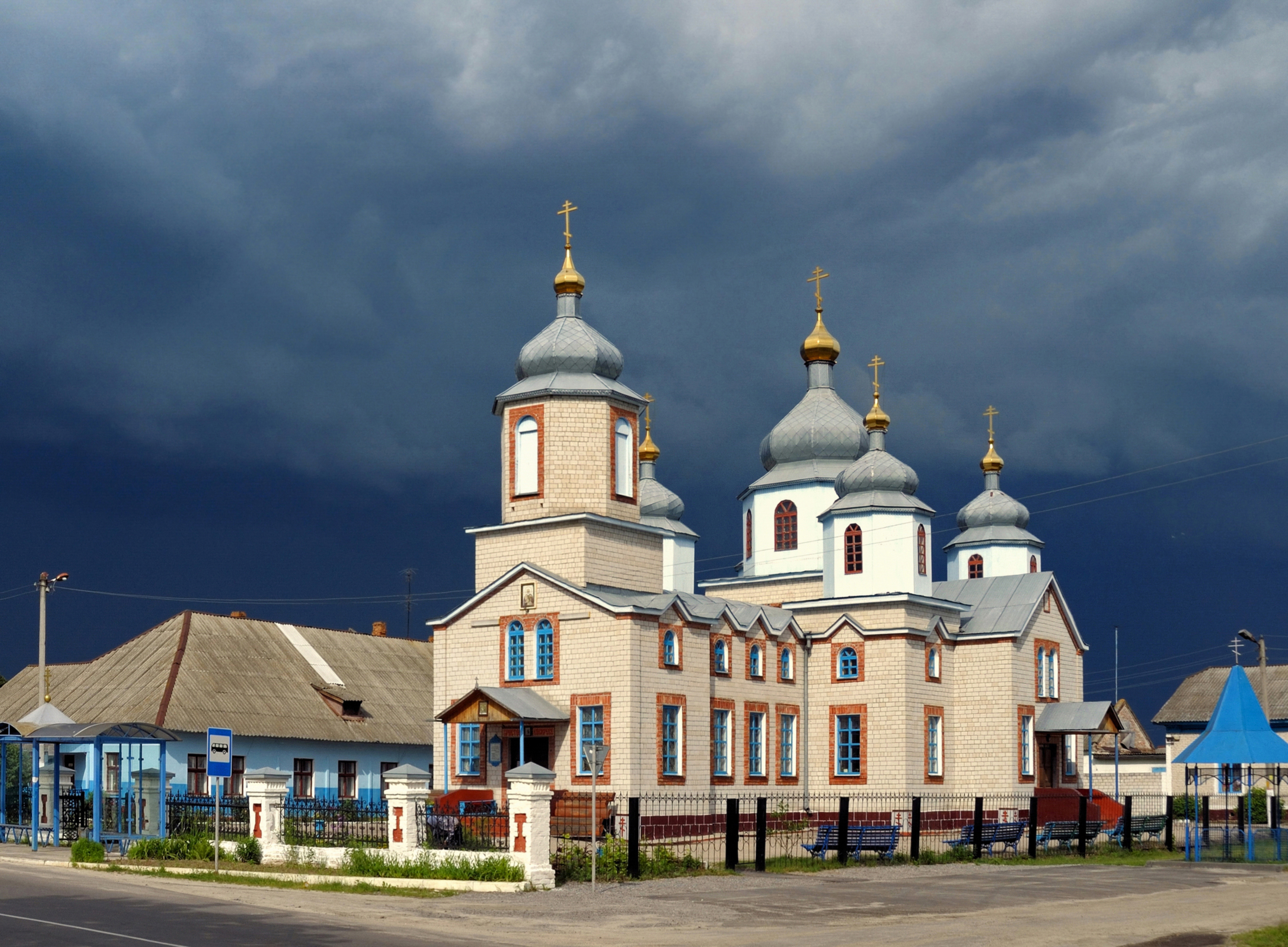 St. Nicholas Cathedral at Dobrush, Belarus